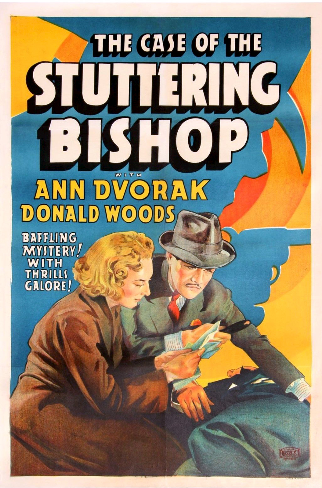 Poster for the 1937 film The Case of the Stuttering Bishop. This is one of Warner Brothers' Perry Mason films.